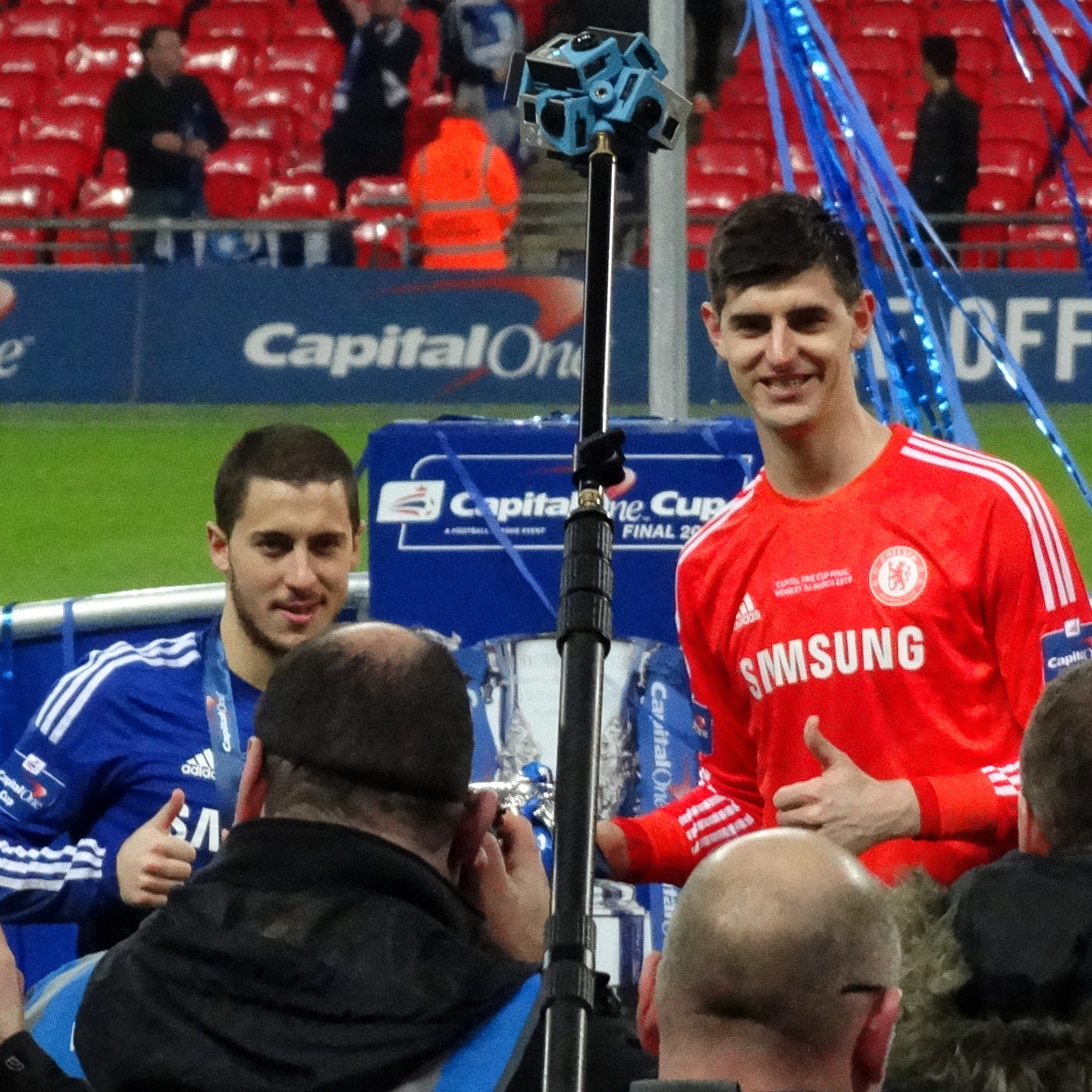 Chelsea 2 Spurs 0 Capital One Cup winners 2015